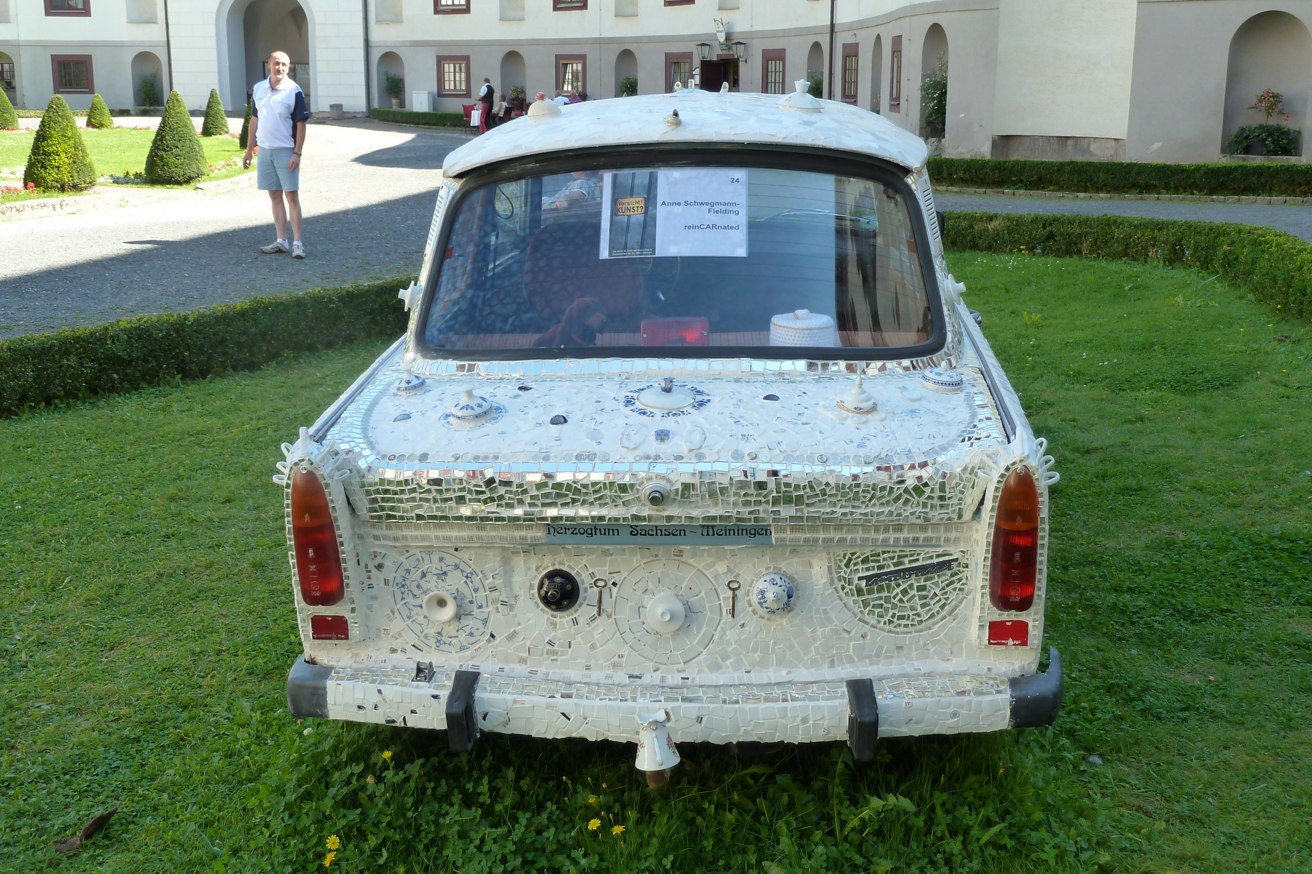 reinCarnated, a Pop Art - Artwork by Anne Schwegmann-Fielding, England